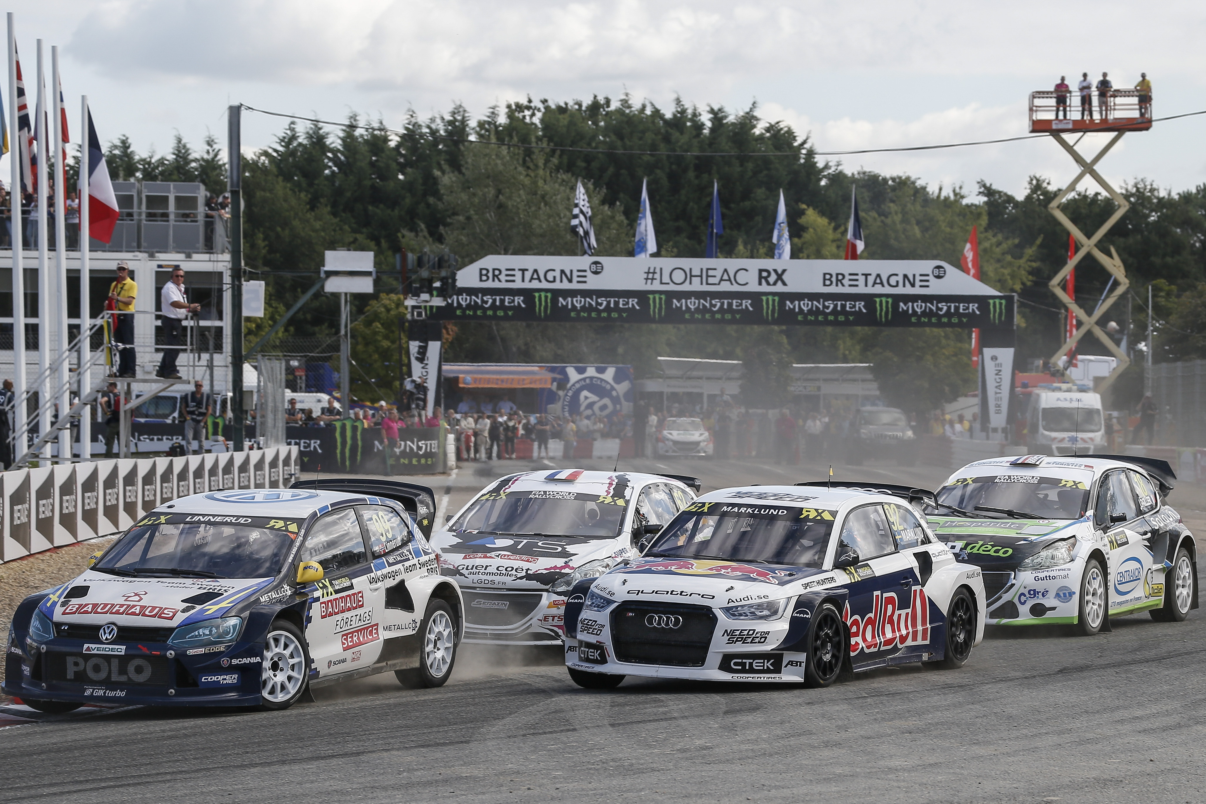 2015 FIA World Rallycross Championship // Round 09 // Loheac, France // 04 - 06, September 2015 // Worldwide Copyright: EKS/McKlein